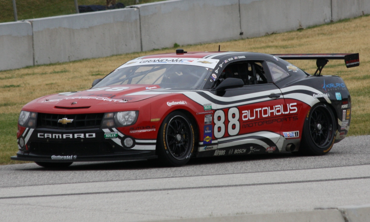 The Autohaus Motorsports GT car driven by Paul Edwards and Jordan Taylor at a 2012 race at Road America.